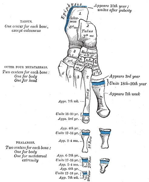 Plan of development or ossification of the foot.